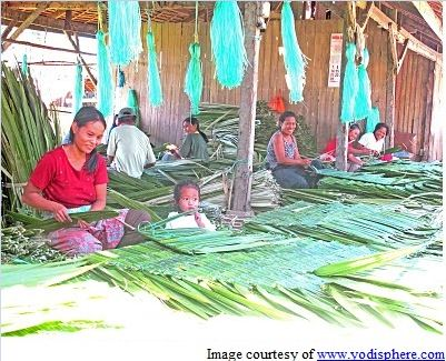 pawid-making